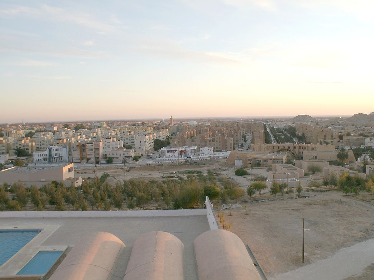 Biskra Cityscape